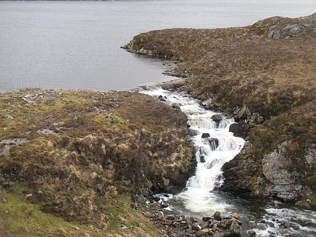 Outflow, Loch Leòsaid A small waterfall on the Abhainn Mhòr where it leaves Loch Leòsaid.